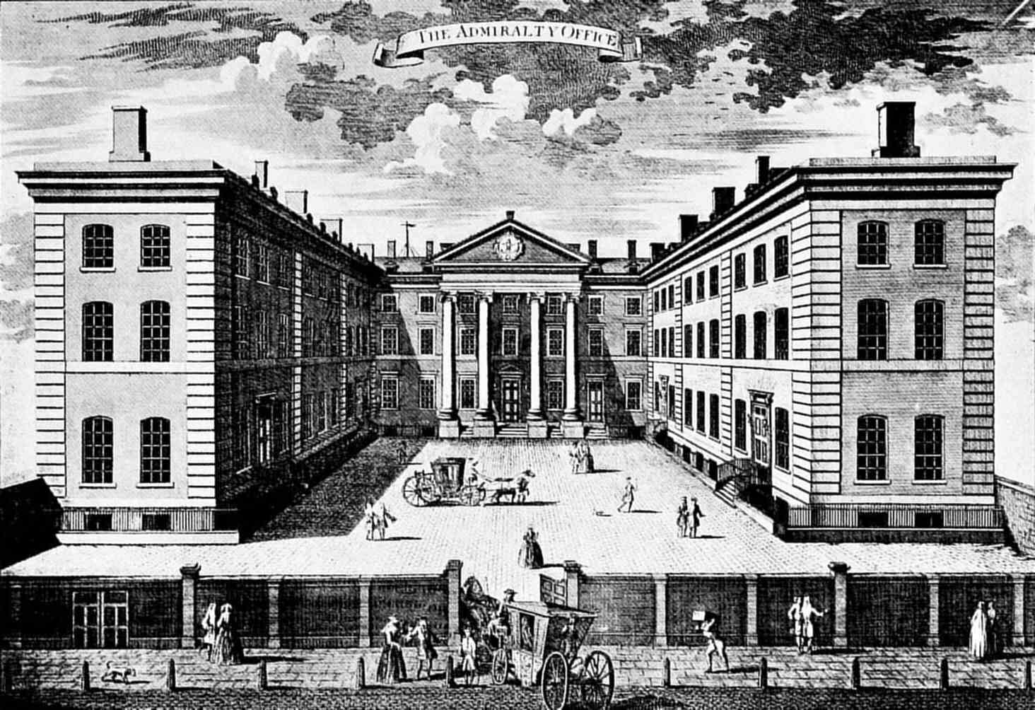 Office of the admiralty controlling the Royal navy in Whitehall, London. From an engraving by D. Cunego. Building shown (the Ripley Building) is still in existnece but a screen was added in front alongside the road.